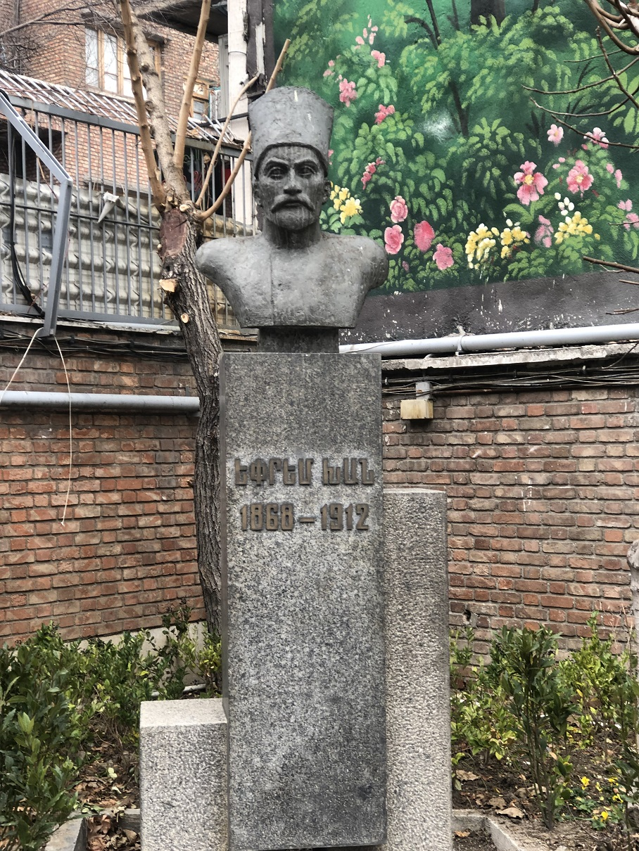 Saint Mary Armenian Church (Tehran)